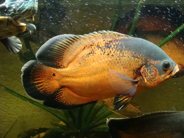 Red Oscar